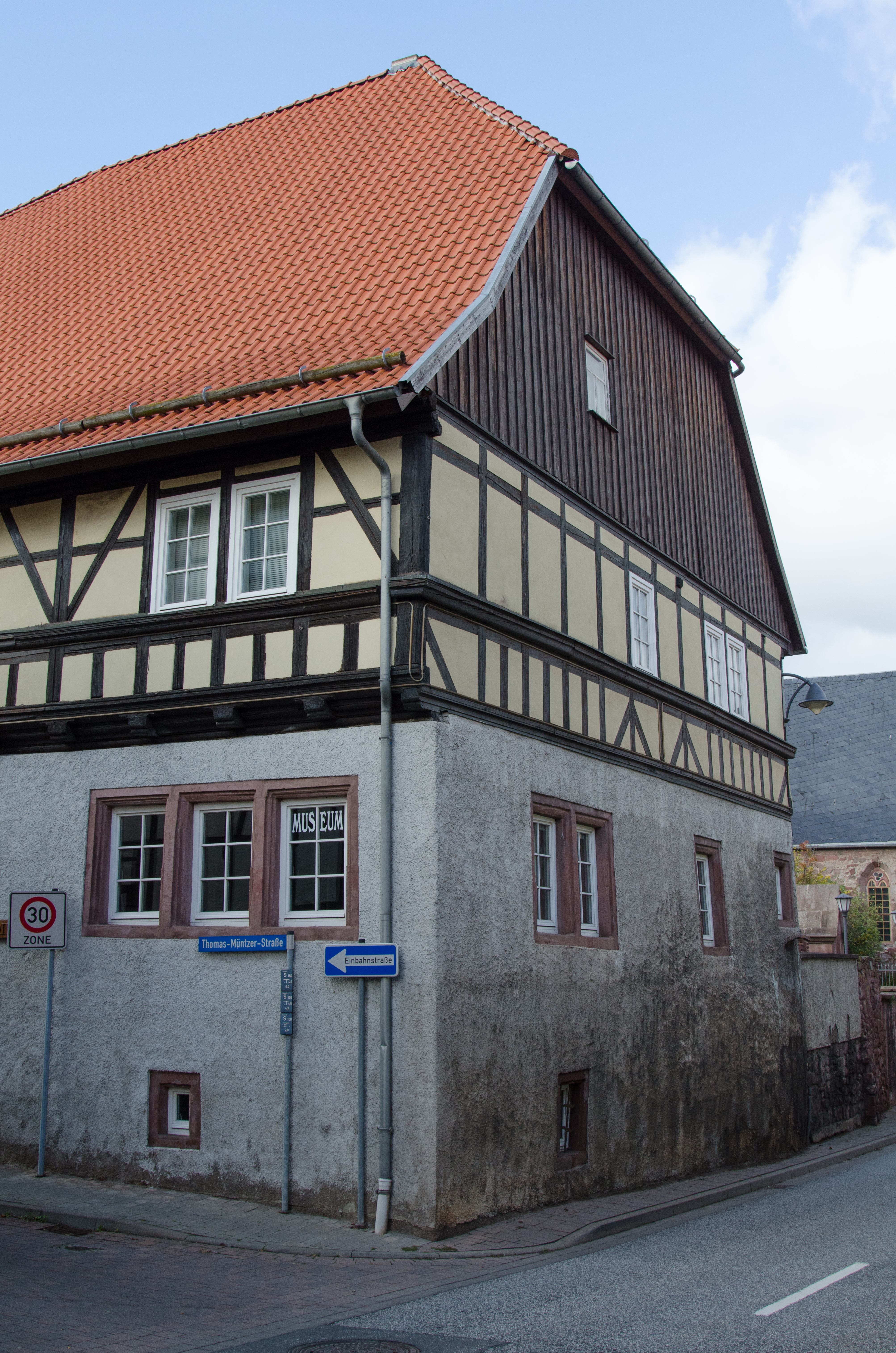 Kelbra, Thomas